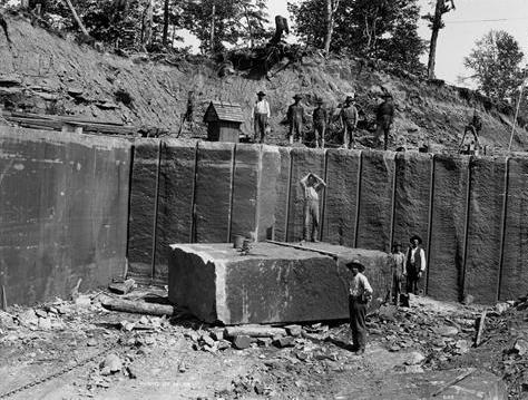 Workers with a large block of Jacobsville Sandstone at a quarry of the Kerber-Jacobs Redstone Company at Portage Entry, Michigan. First published in State of Michigan: Mines and Mineral Statistics for 1897, page 79.